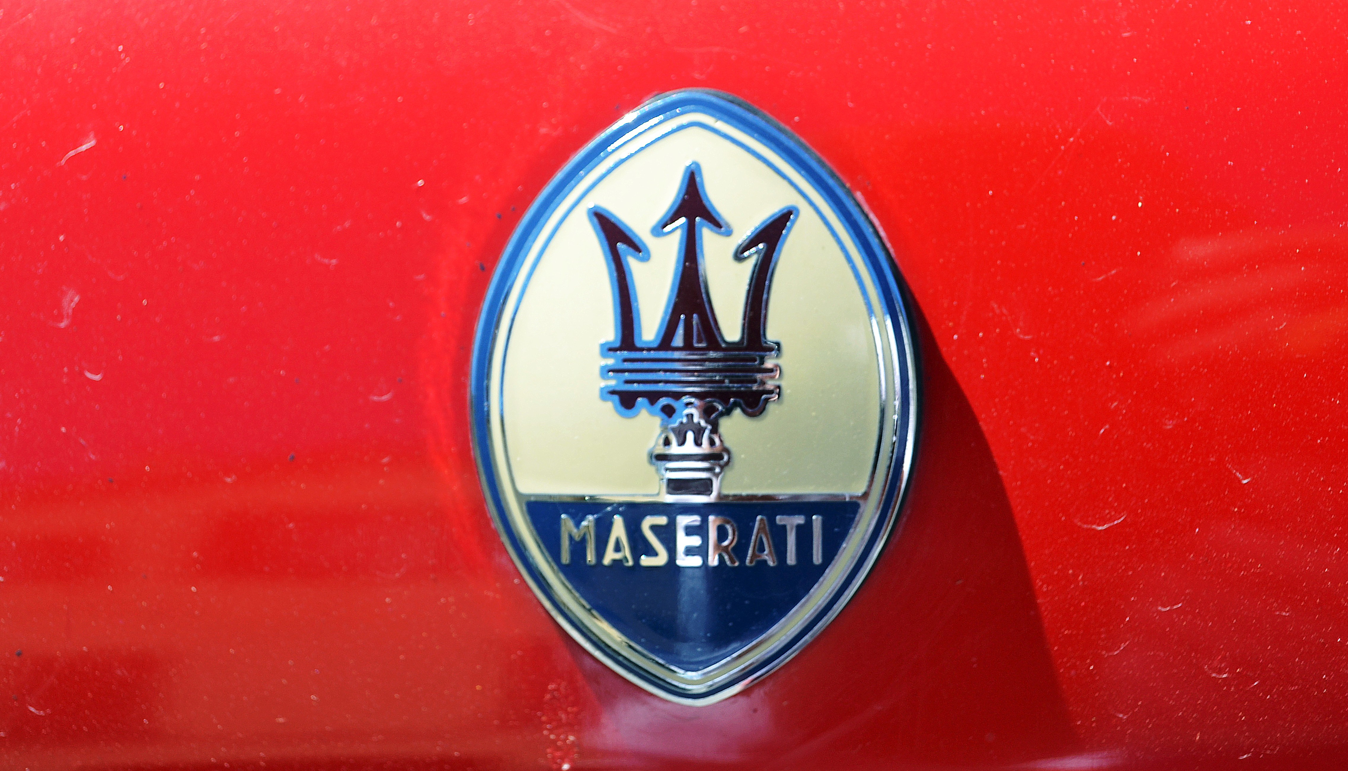 Maserati Emblem on an 1990 Maserati (Biturbo) Spyder